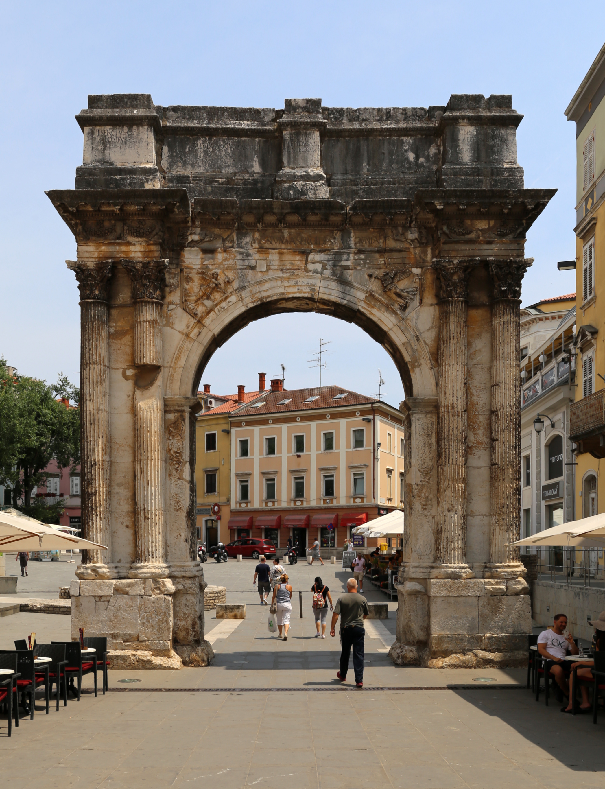 Buildings in Pula